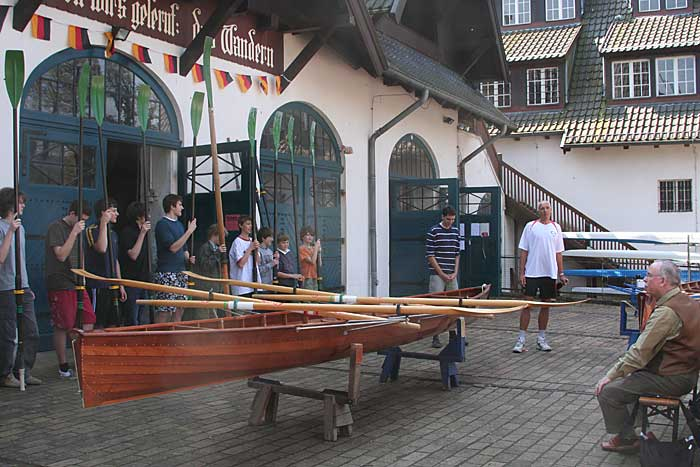 taufe eines ruderboots vor dem ruderer-haus des arndt-gymnasiums dahlem